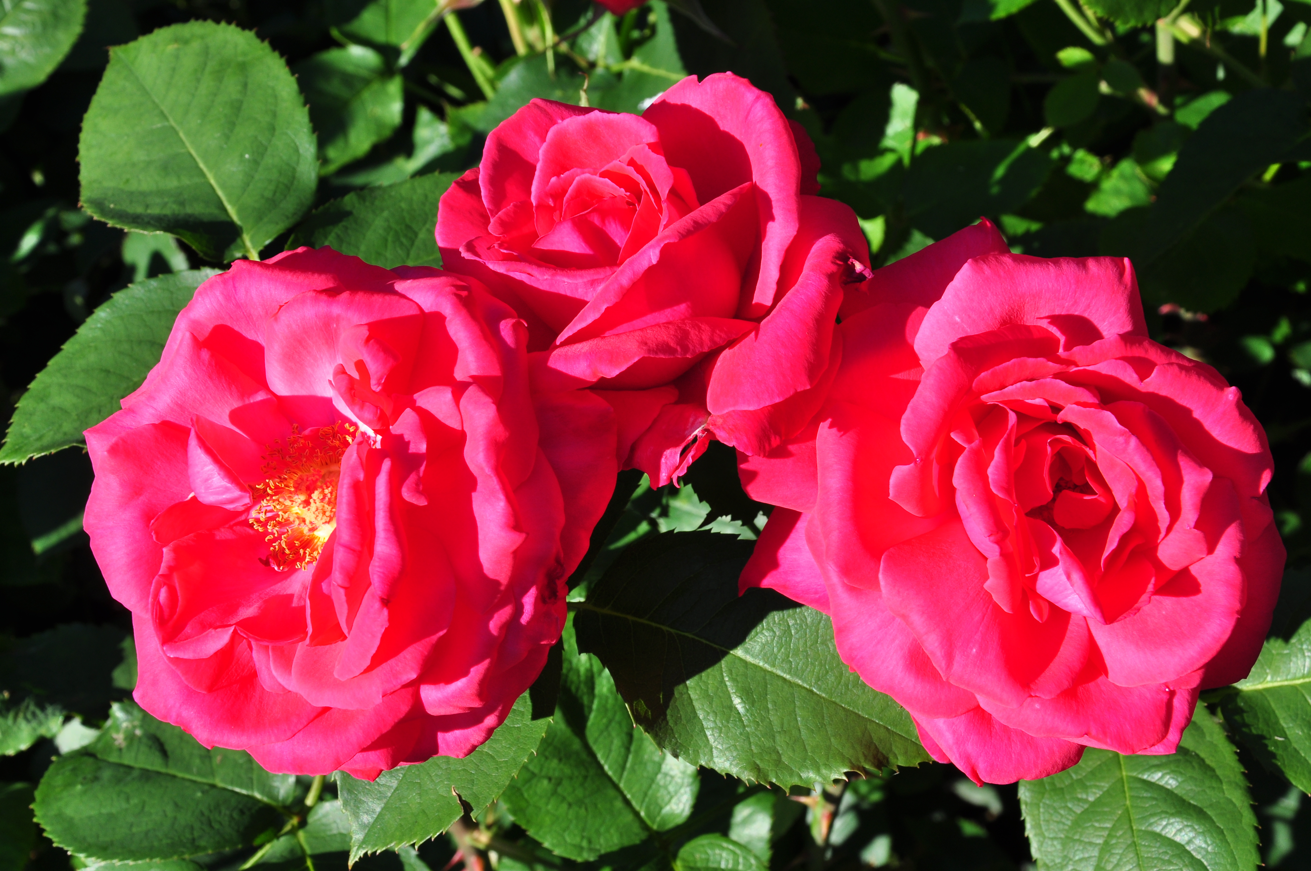 Rose named Harmonie May Queen (KL 1898) in Duftrosengarten for blind people in Rapperswil (SG)